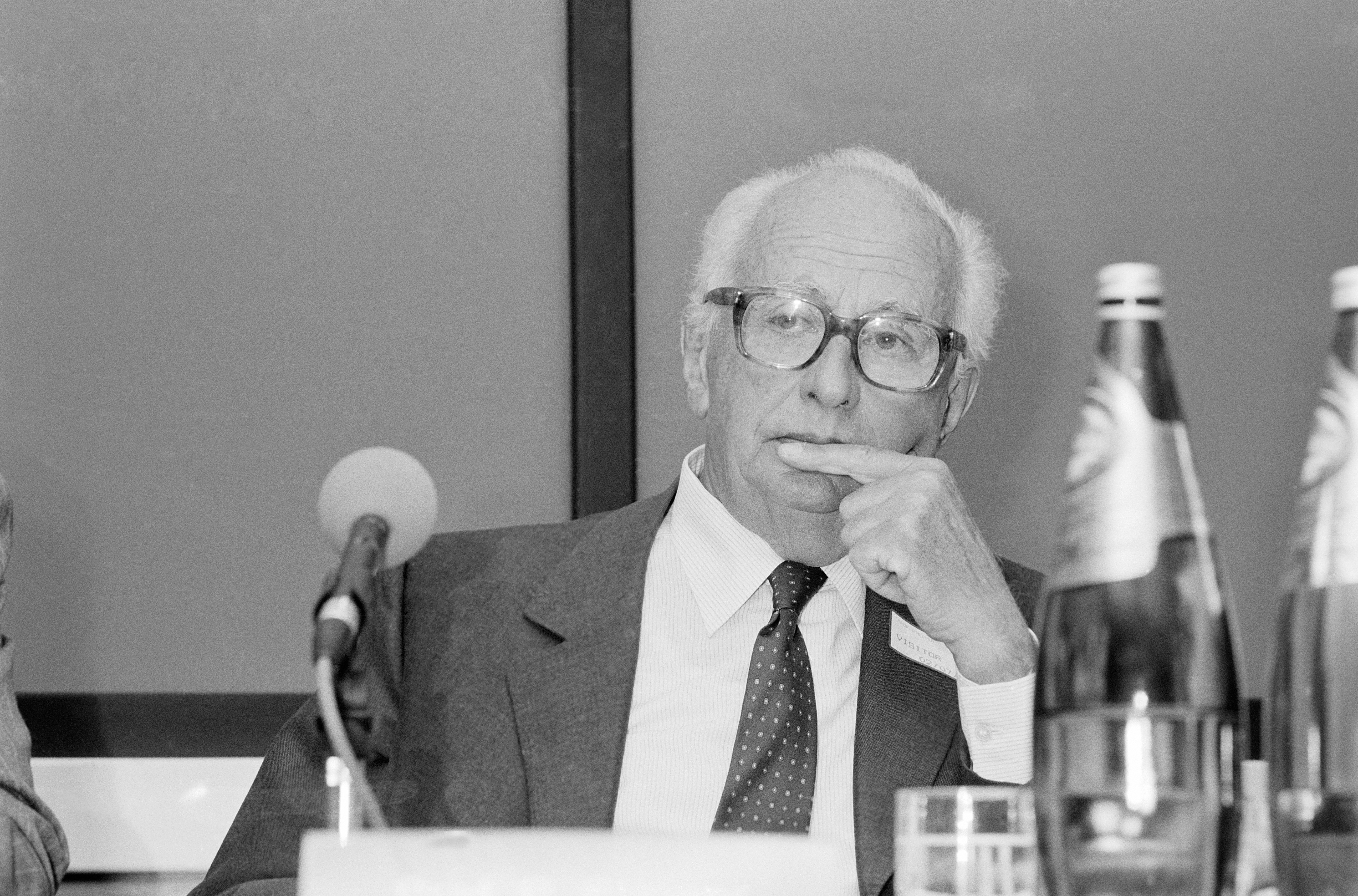 Taken at the Witness Seminar “Making the Body More Transparent: The Impact of Nuclear Magnetic Resonance and Magnetic Resonance Imaging” held by the History of Twentieth Century Medicine Group.